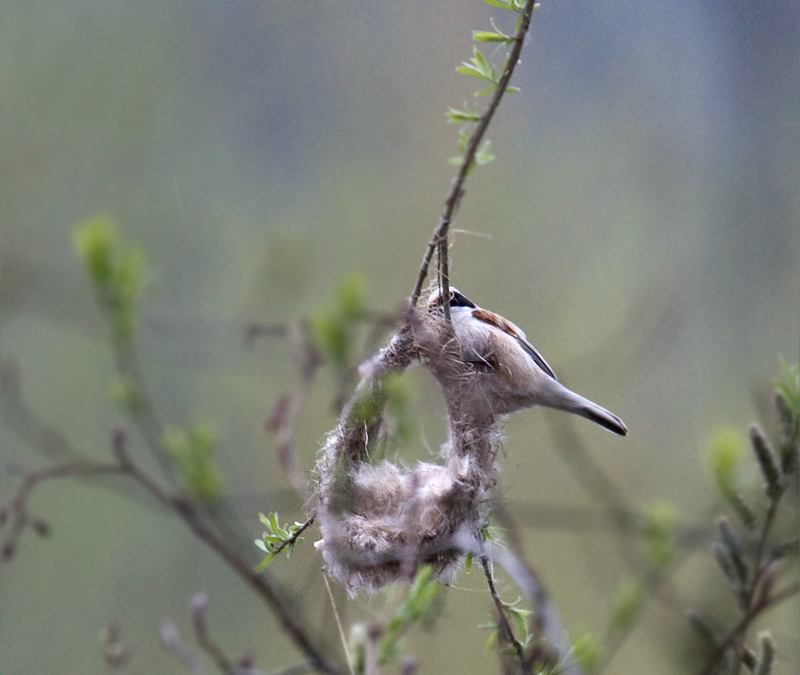 European Penduline Titpreparing the nest